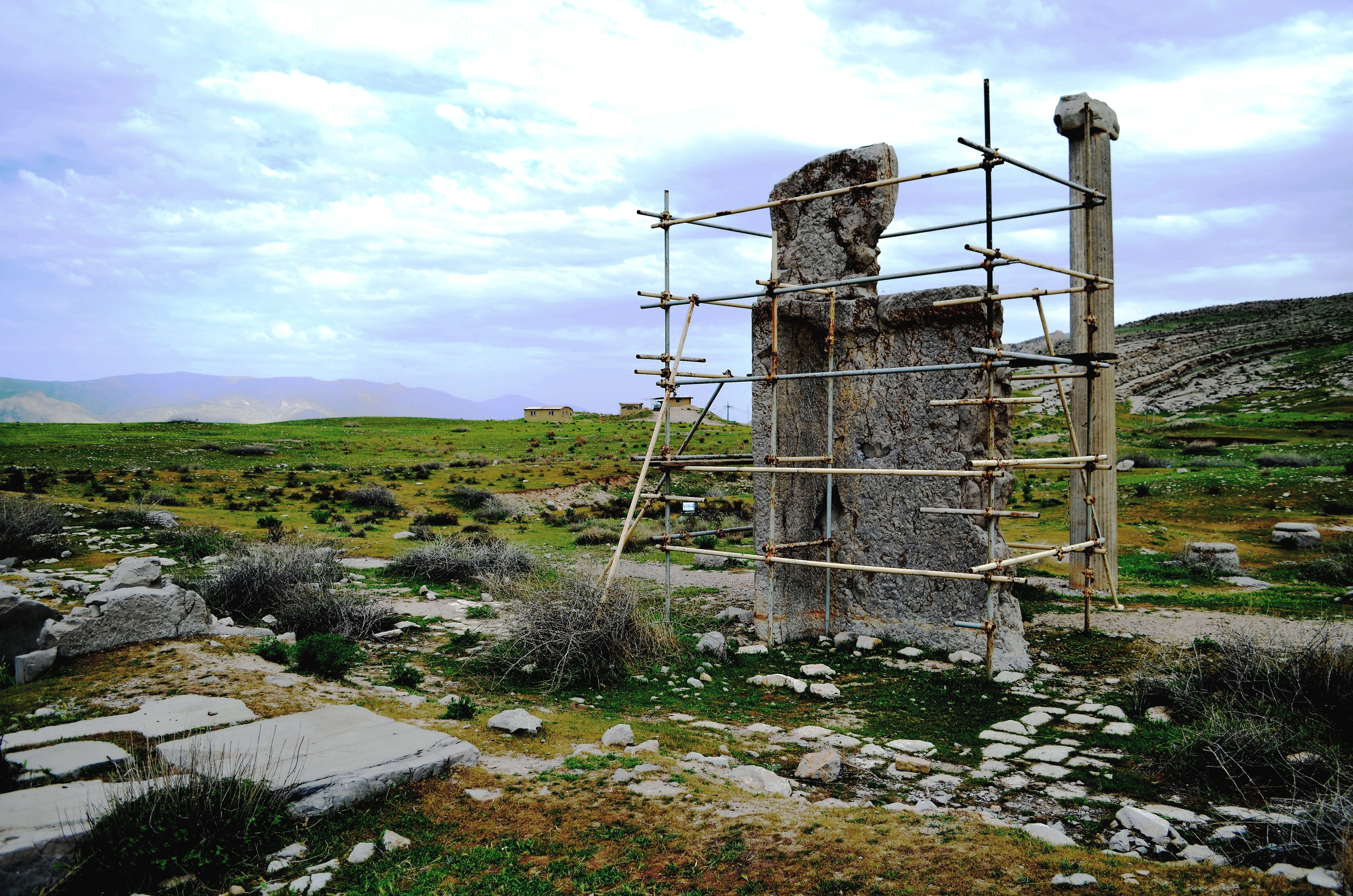 Estakhr